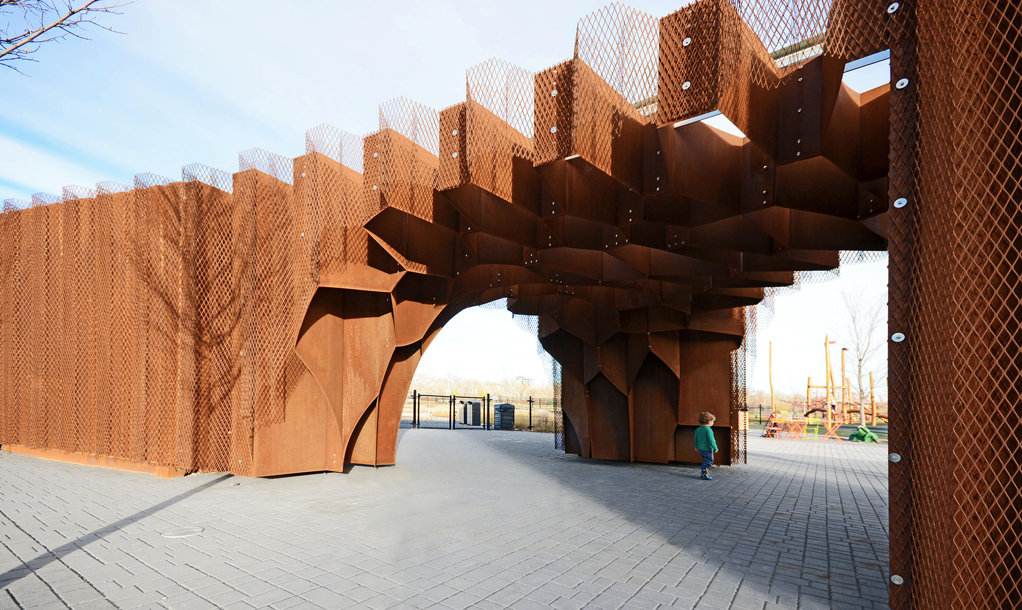 Crossroads Garden Shed, located in Calgary, Canada